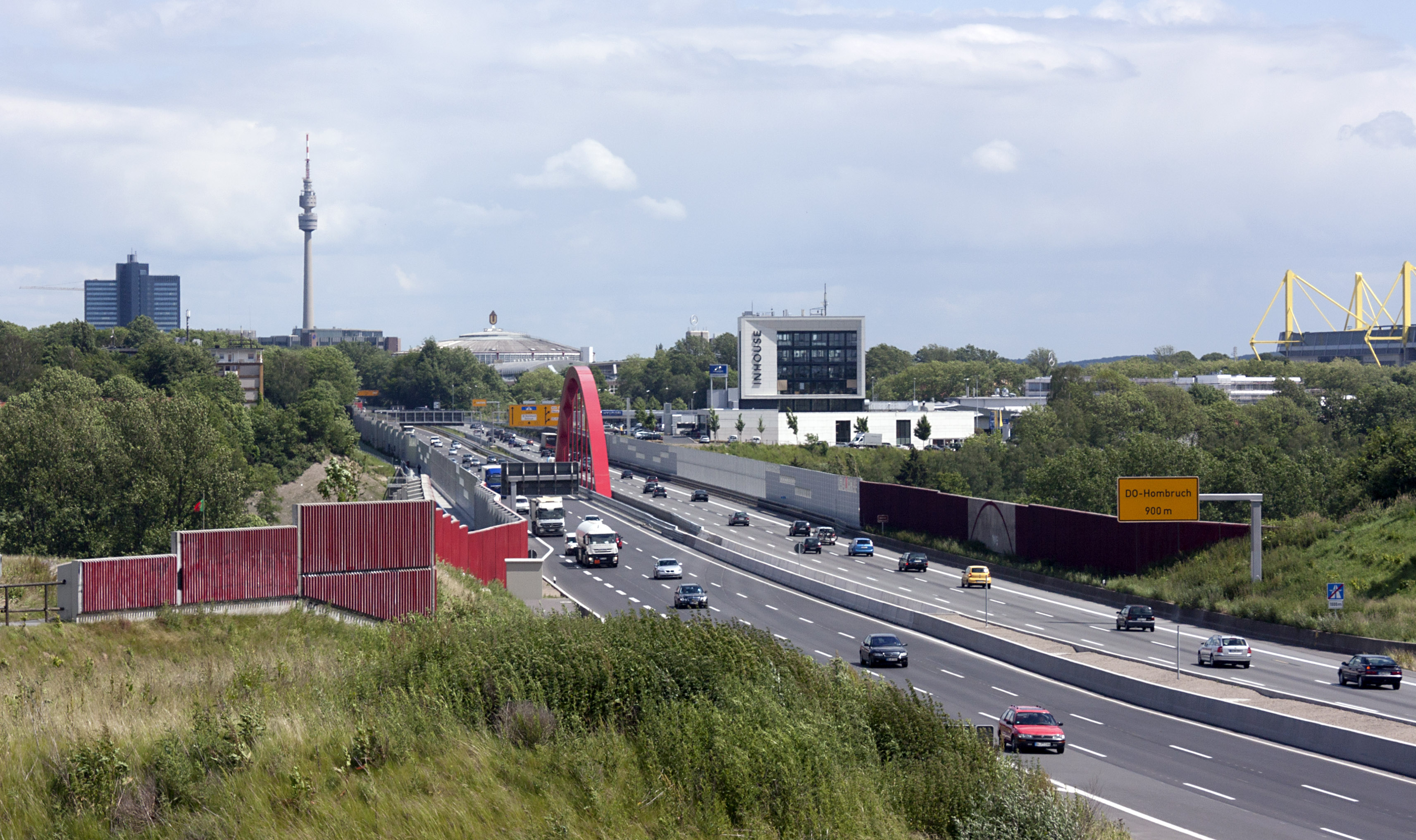 Schnettkerbrücke (Dortmund), view from the west side